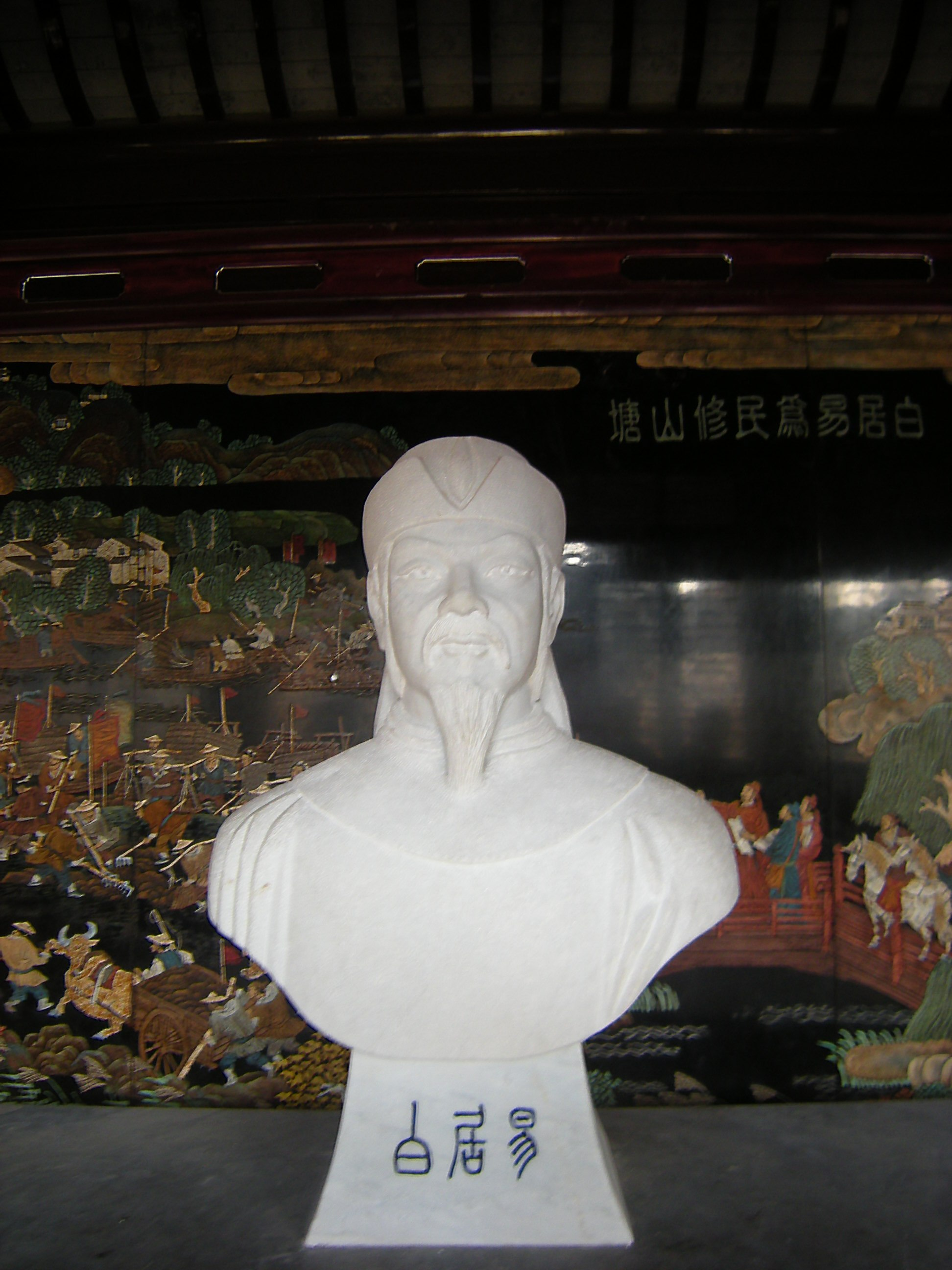 Bai_Juyi statue